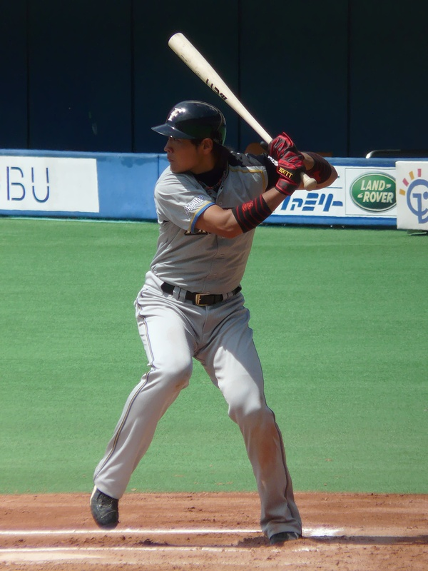 NF-Suguru-Ichikawa20090825